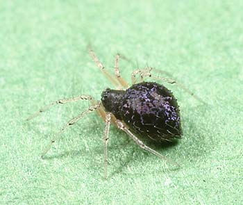 female Oilinyphia peculiaris from Okinawa.